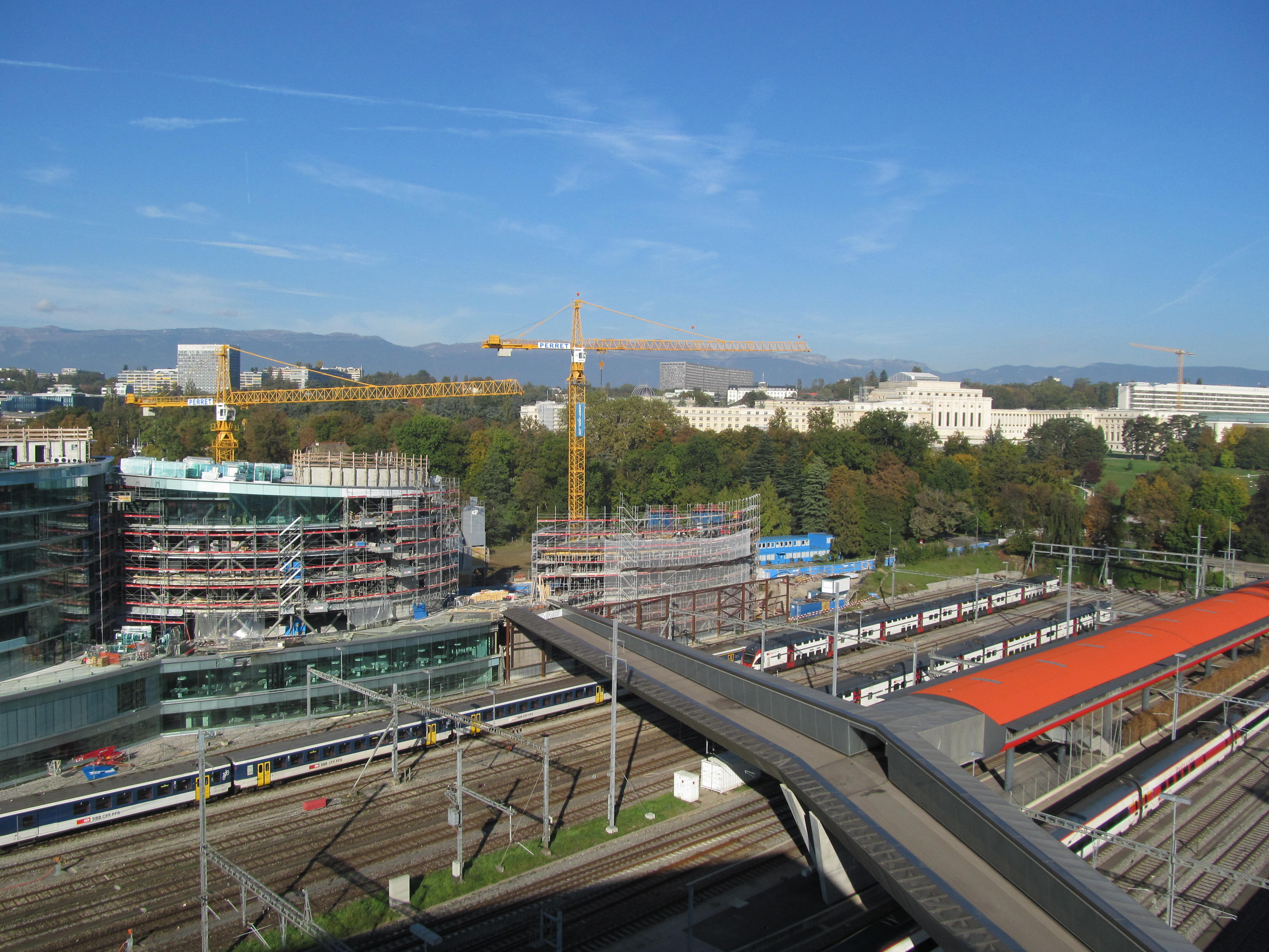 From left to right: petals three, four, five, and the future site of petal six of the Maison de la paix. Petals three and four should open January 2014. The pedestrian bridge connects Maison de la paix to the Picciotto student house.